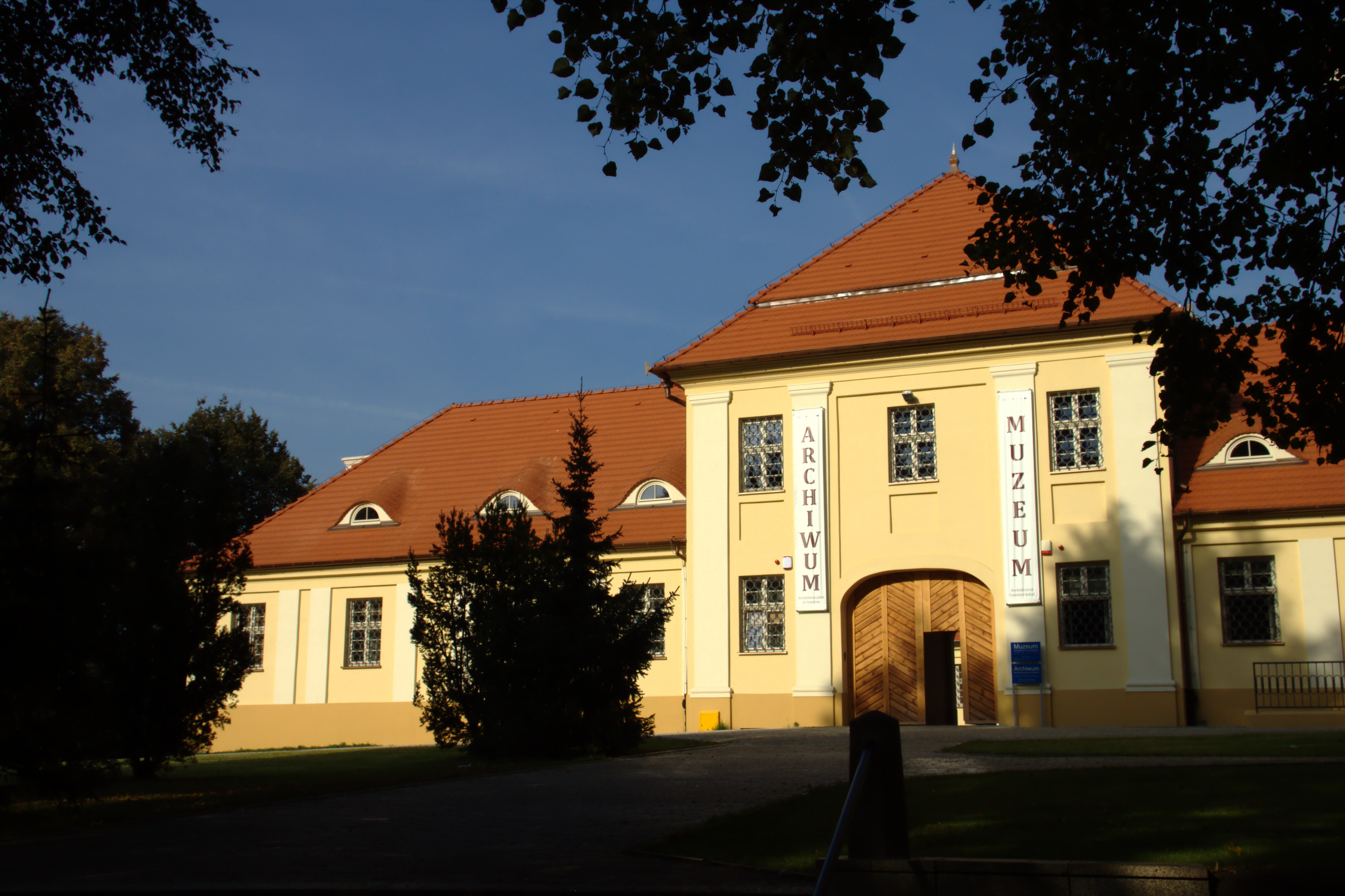 Archdiocesan archive and museum in Gniezno, Poland